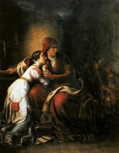 Queen Mary I of Hungary, with her mother Elizabeth, Dowager Queen of Hungary and Poland, imprisoned.